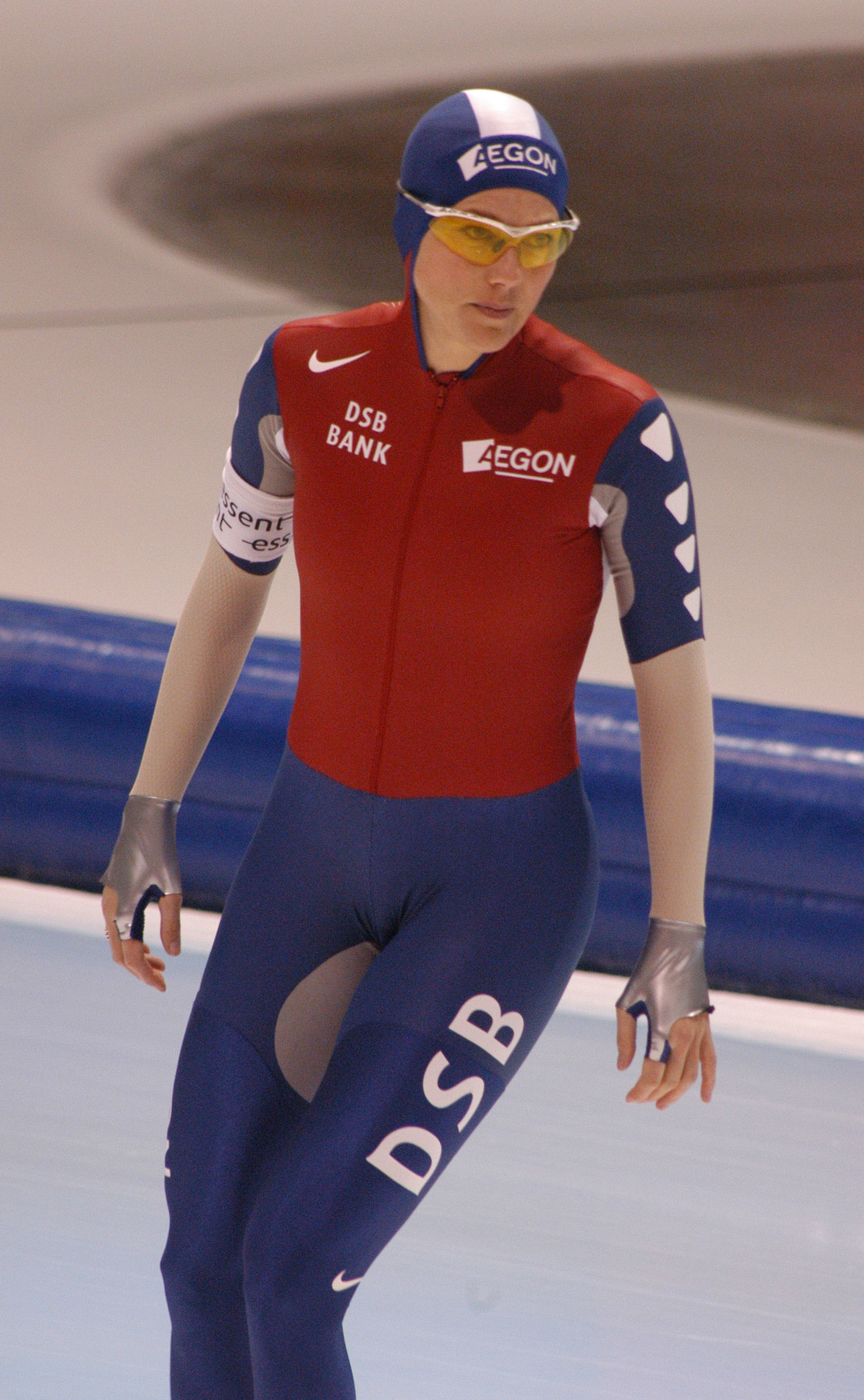 Marianne Timmer (NED) at a World Cup Speedskating in Heerenveen, the Netherlands.